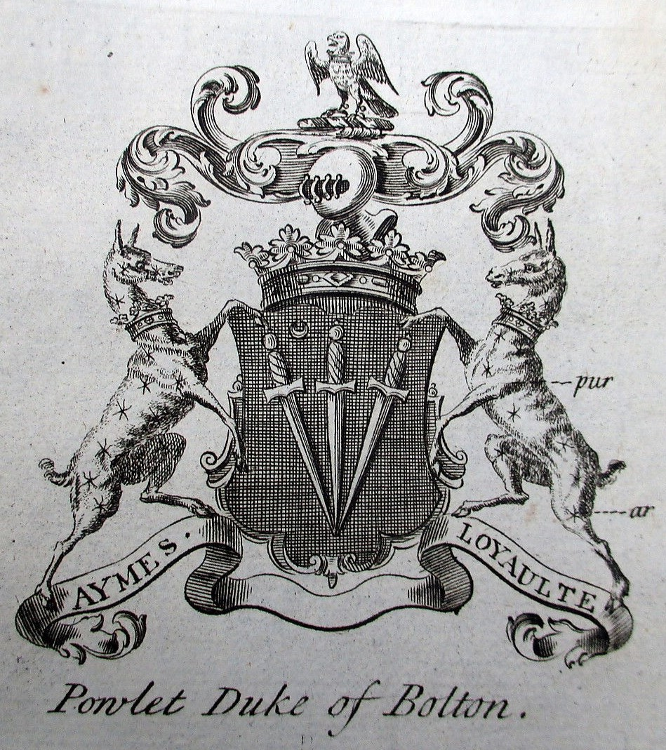 Coat of arms of Powlet Duke of Bolton, published by Arthur Collins in The Peerage of England, 1768.